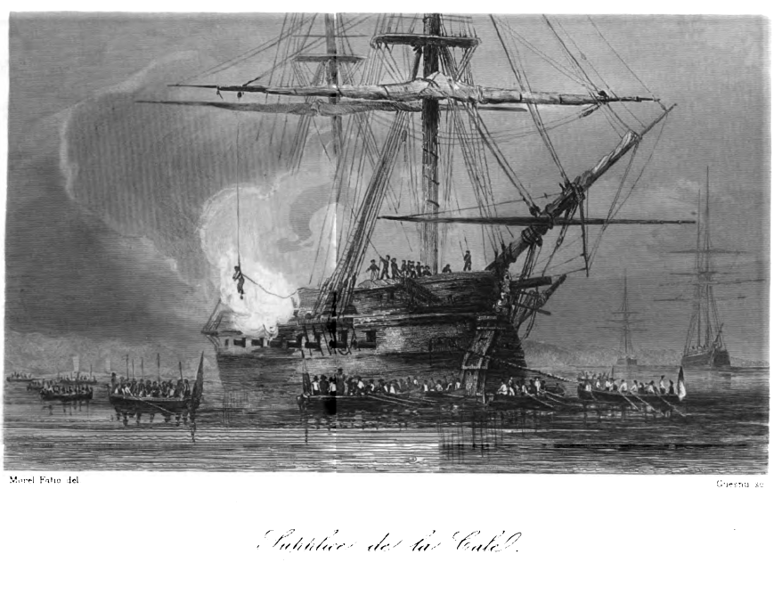 Supplice de la cale, whereby a sailor would be dunked into the sea up three times in a row, with a 30-pound cannonball tied to his feet; keelhauling was regarded as barbaric in the French Navy. Illustration from La Marine, by Pacini,p. 118 bis.